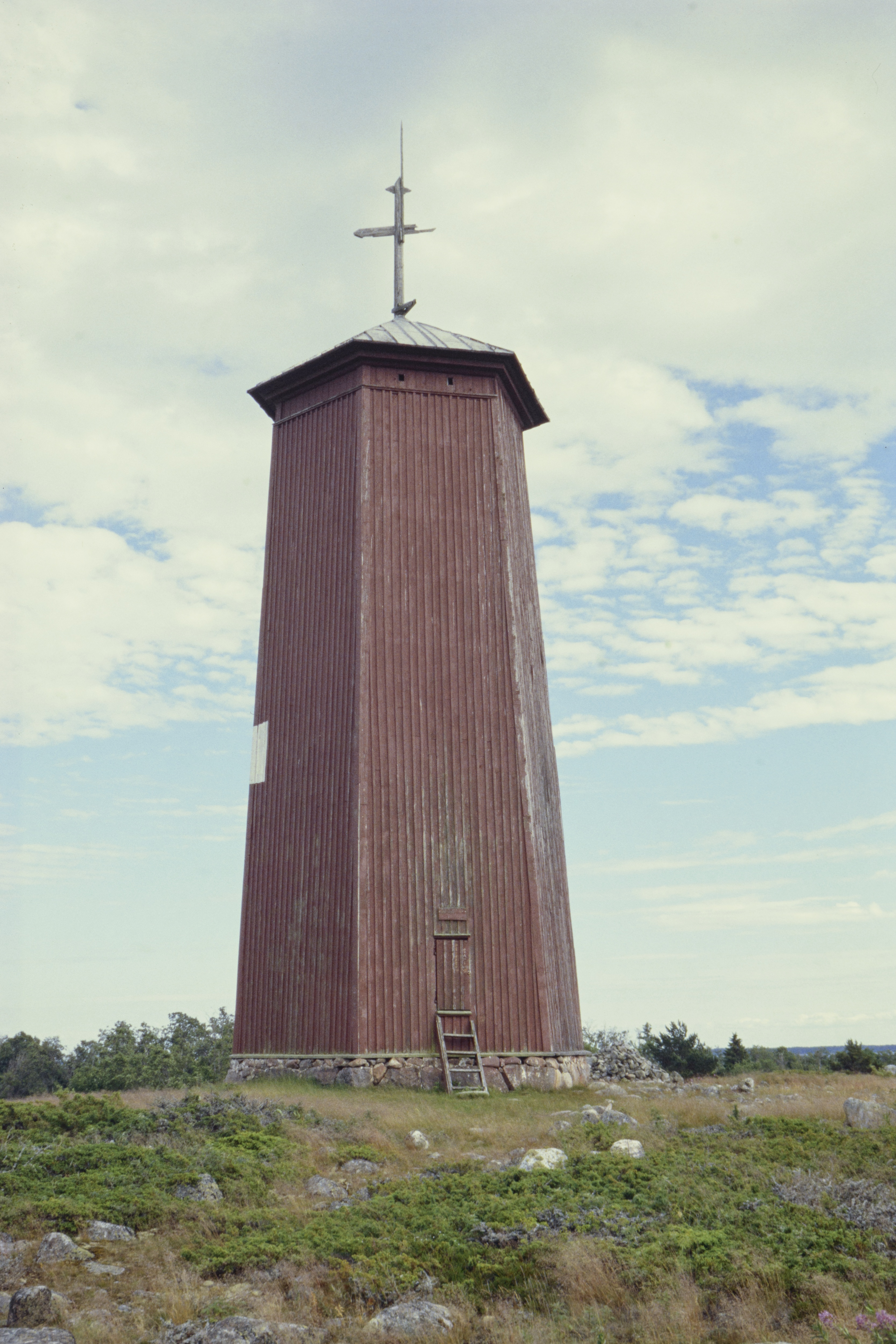 Stubben daymark in 1999.